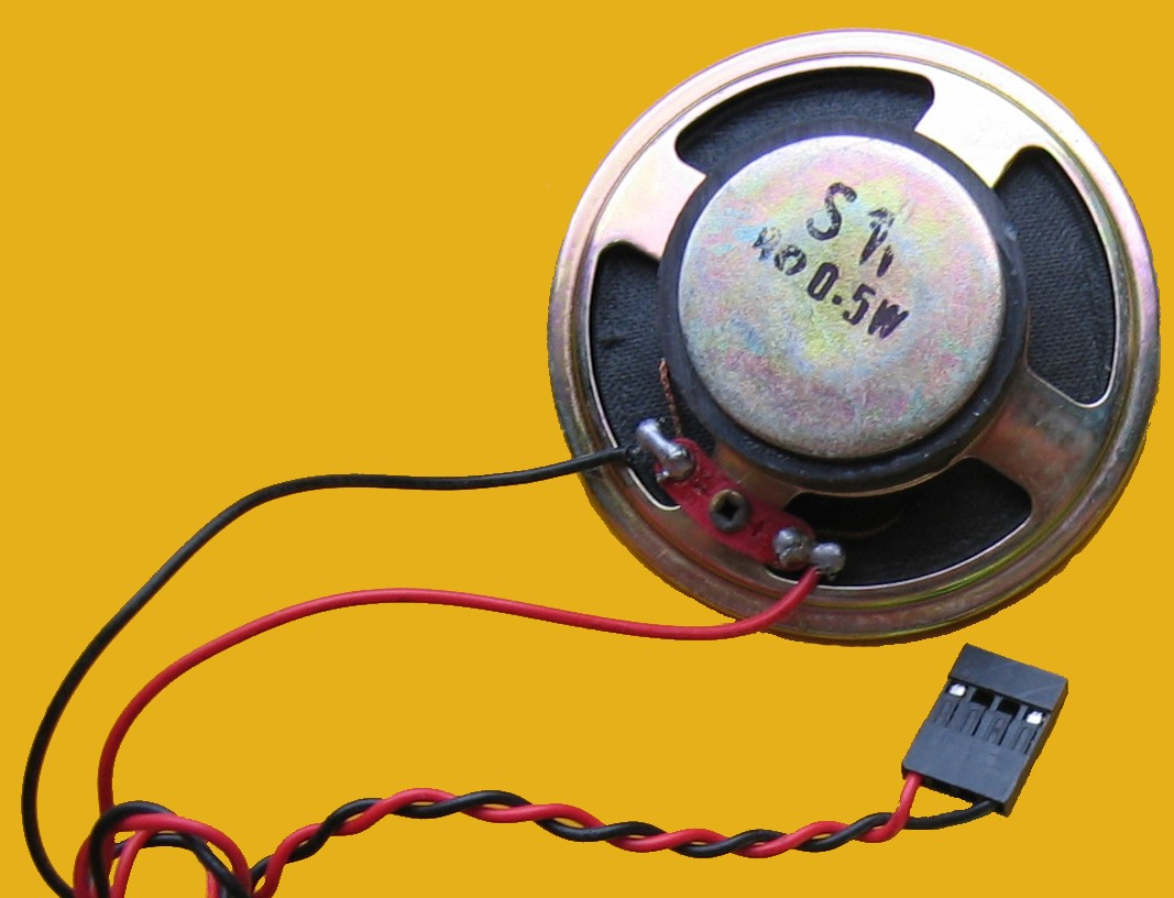 PC Speakers and Buzzers